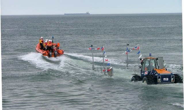 Redcar Lifeboat. The inflatable lifeboat launches for the public on occasion of the RNLI flag day hence the bunting on the trailer.